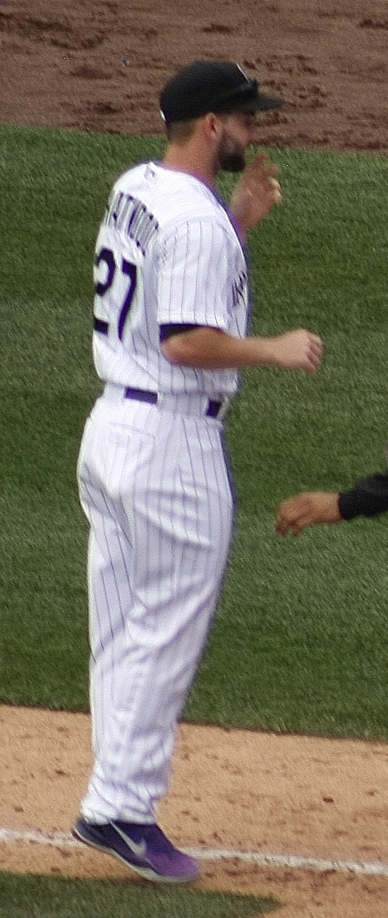 Tyler Chatwood